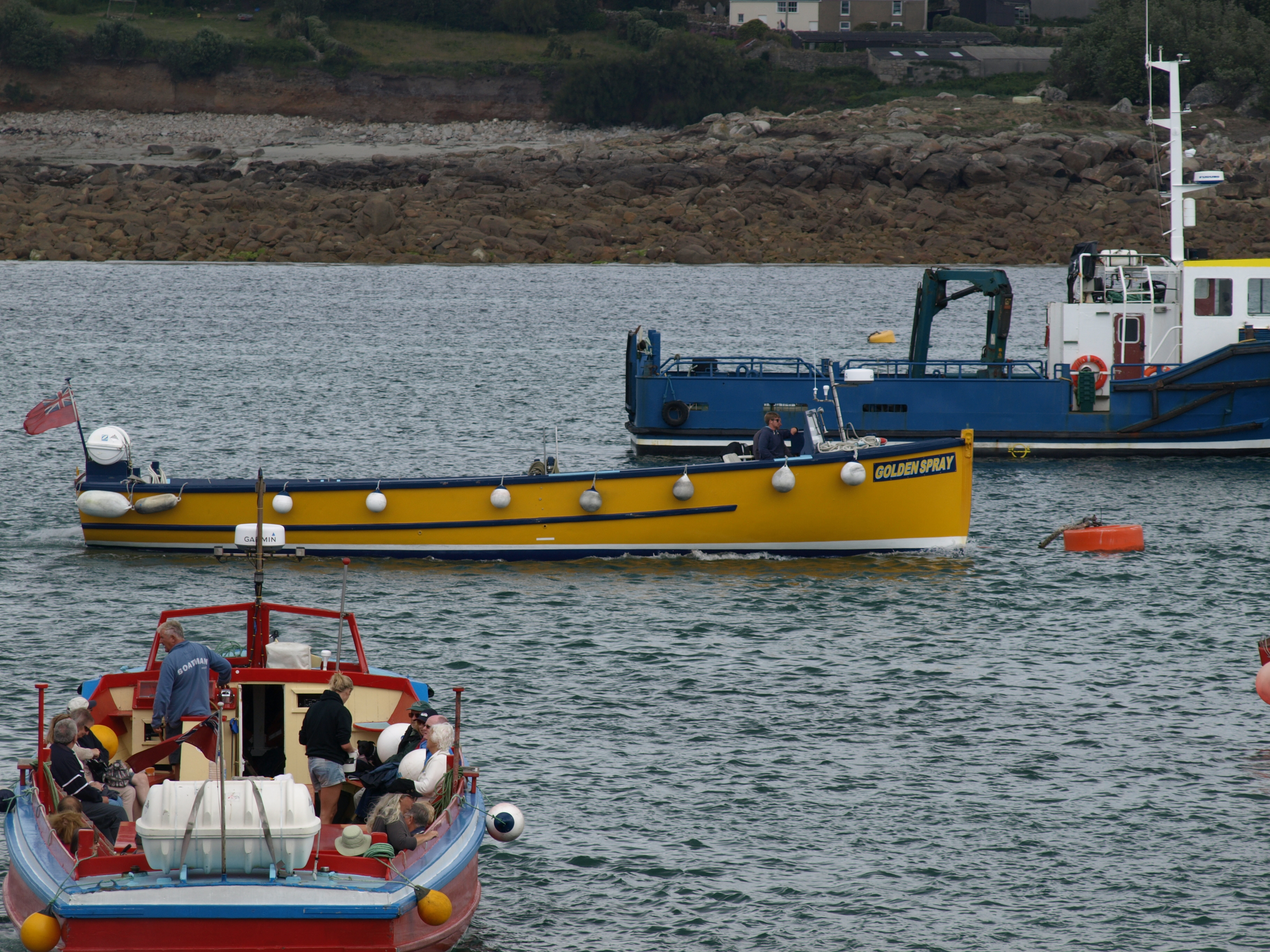 In Hugh Town harbour